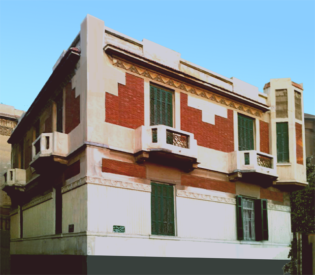 Έπαυλη Α.Παναγιωτάτου, Παναγιωτάτειο Ίδρυμα, Ἐντευκτήριο Συλλόγου Ελλήνων Επιστημόνων "Πτολεμαίος ο Α΄"